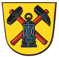 Coat of arms of Laurenburg